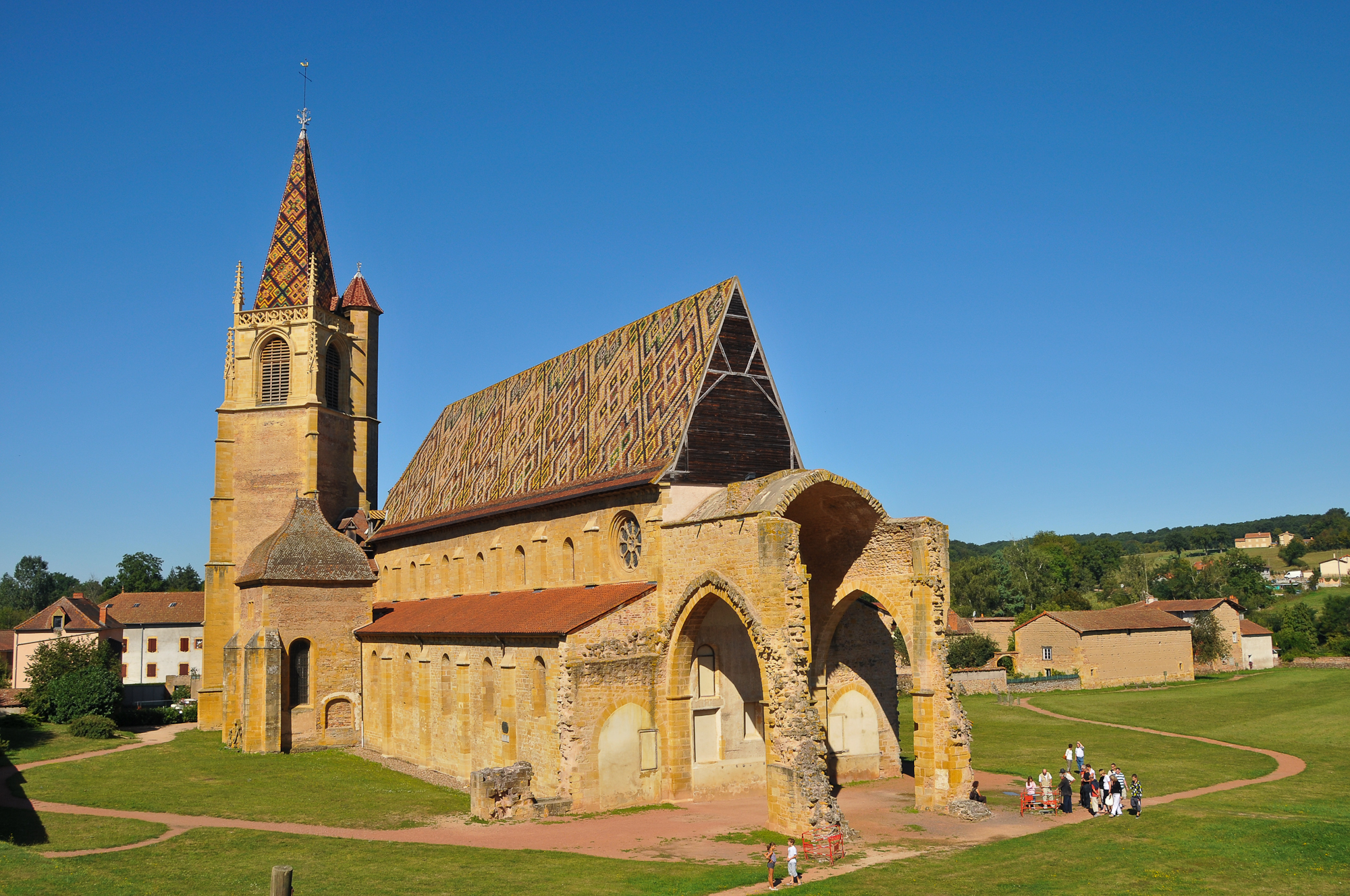 Rear view (taken from the East) of the church